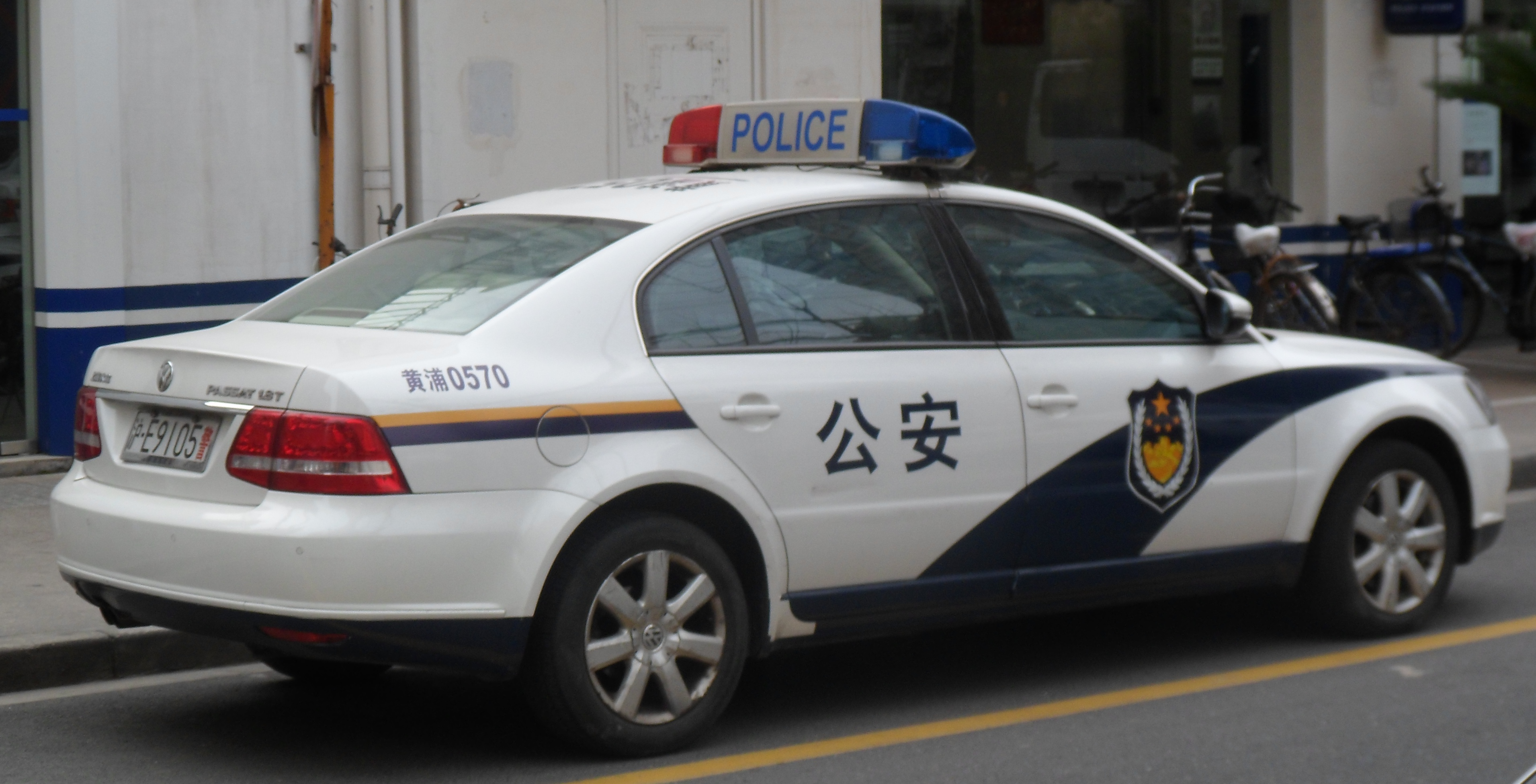 Volkswagen Passat Lingyu facelift photographed in Shanghai, China.